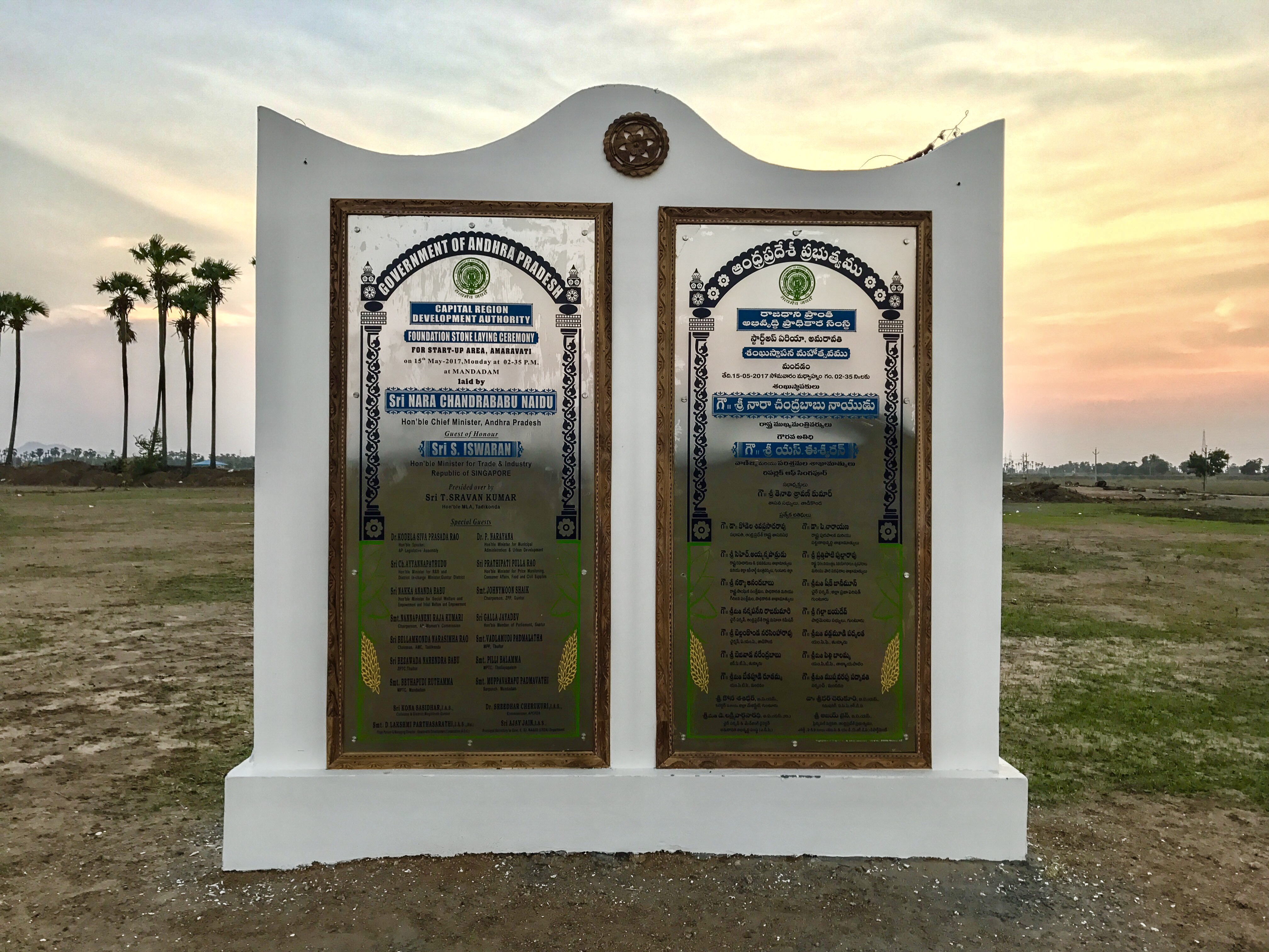 Foundation stone laid near Mandadam for Startuo area